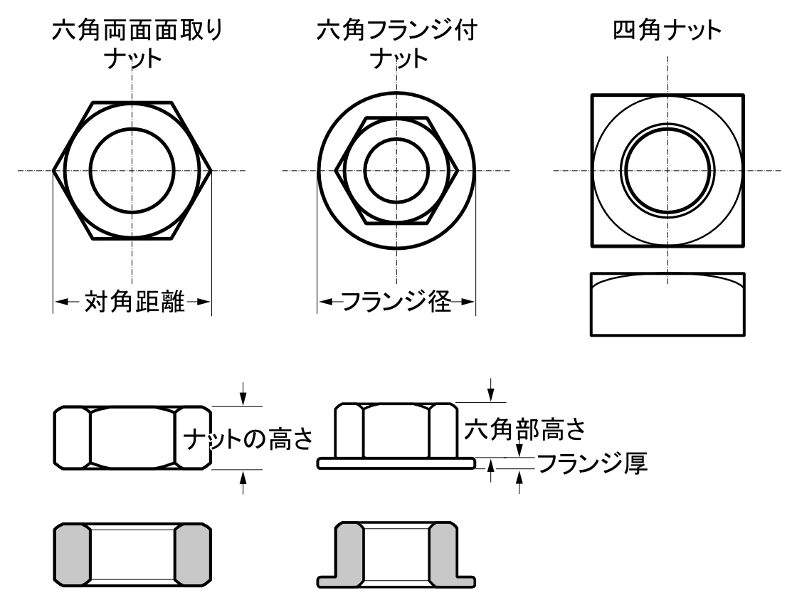 Screw (bolt) 22B-J